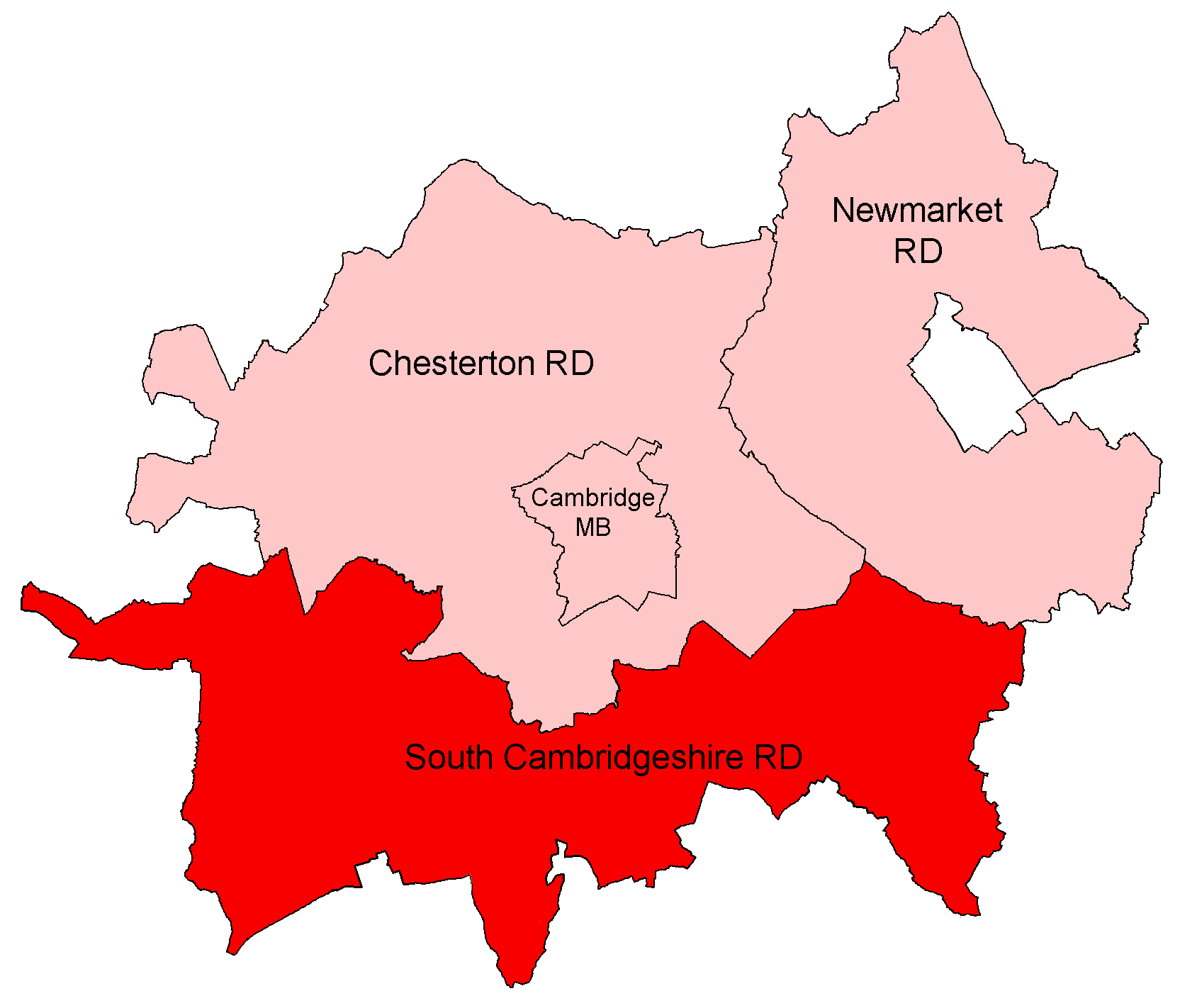 South Cambridgeshire Rural District, shown within the administrative county of Cambridgeshire. All boundaries shown are correct for the period between 1934 and 1965.